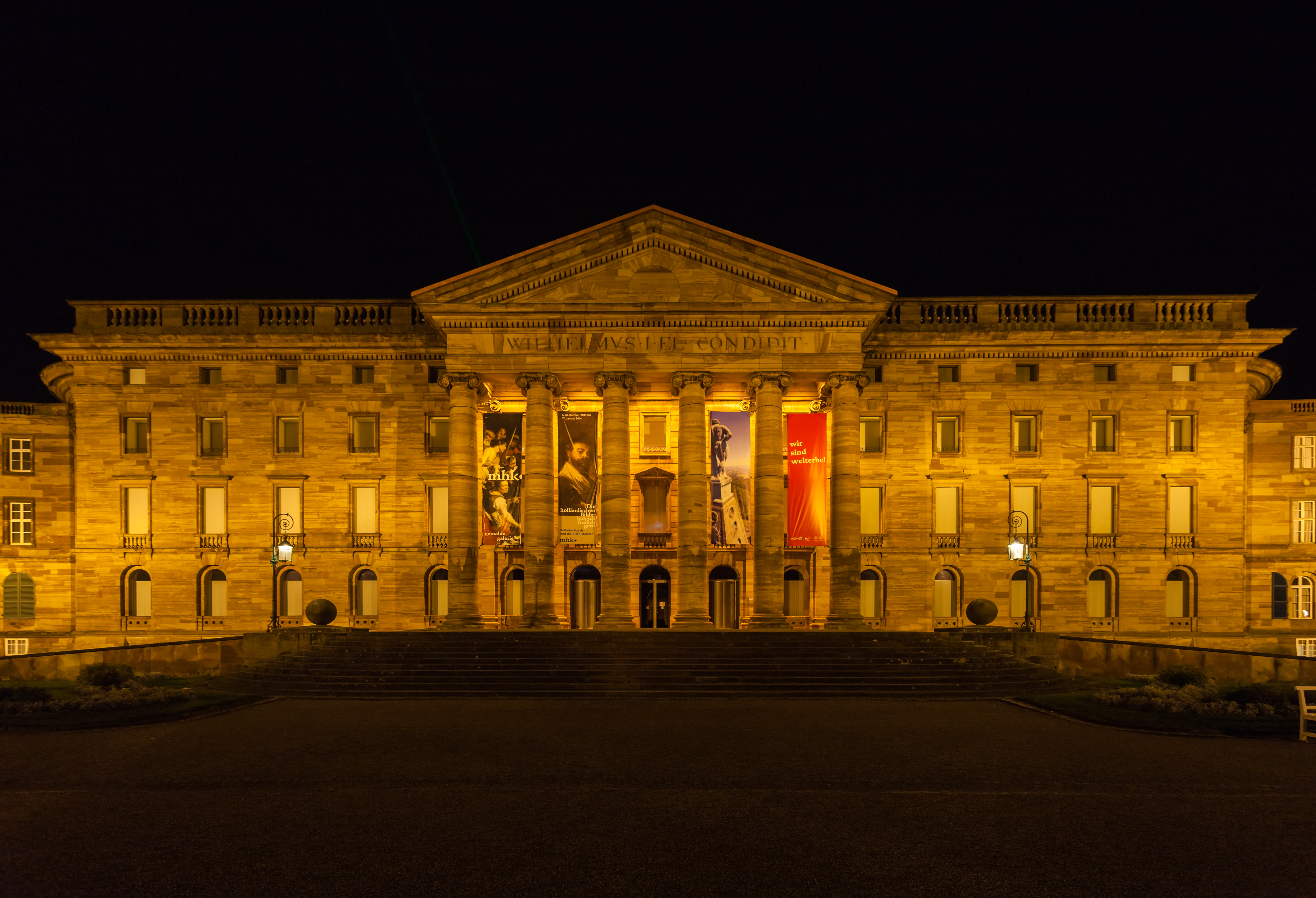 Wilhelmshöhe Palace, Kassel, Germany